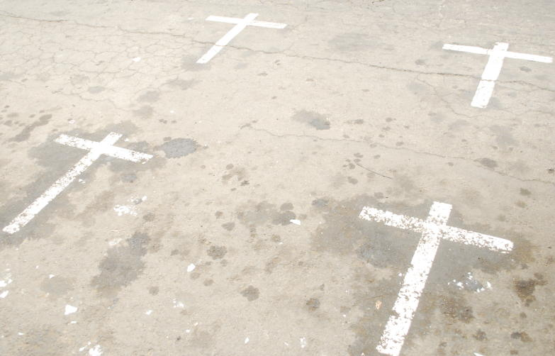 Crosses marking the place where four students were murdered by Somozas forces in León, Nicaragua.